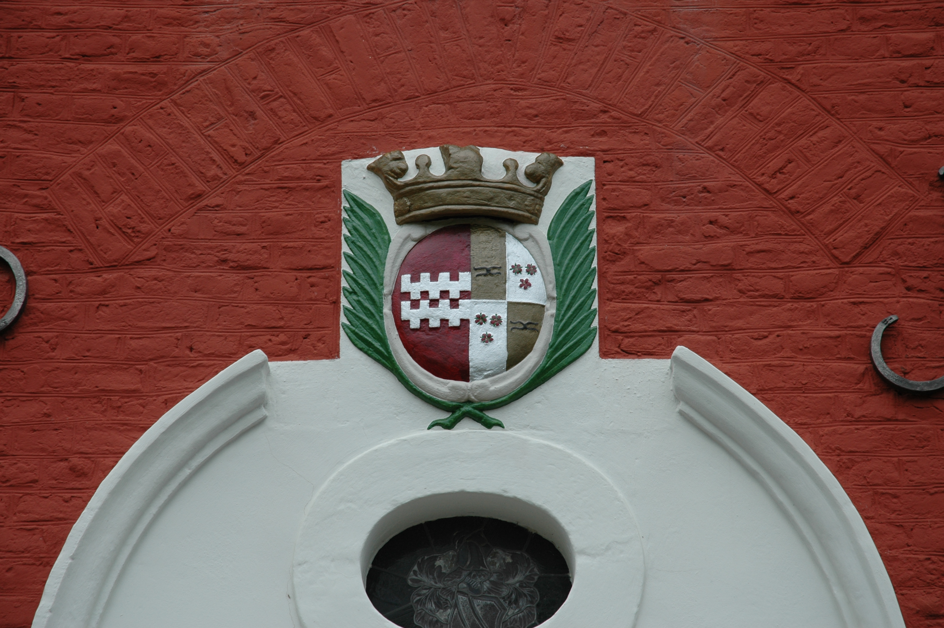 Haus Buschfeld in Erftstadt, coats of arms above the portal